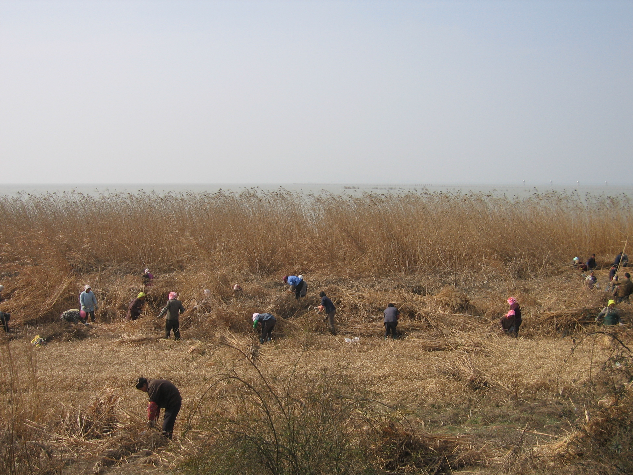 Cutting reeds on the shore of Taihu Lake, west of Suzhou.